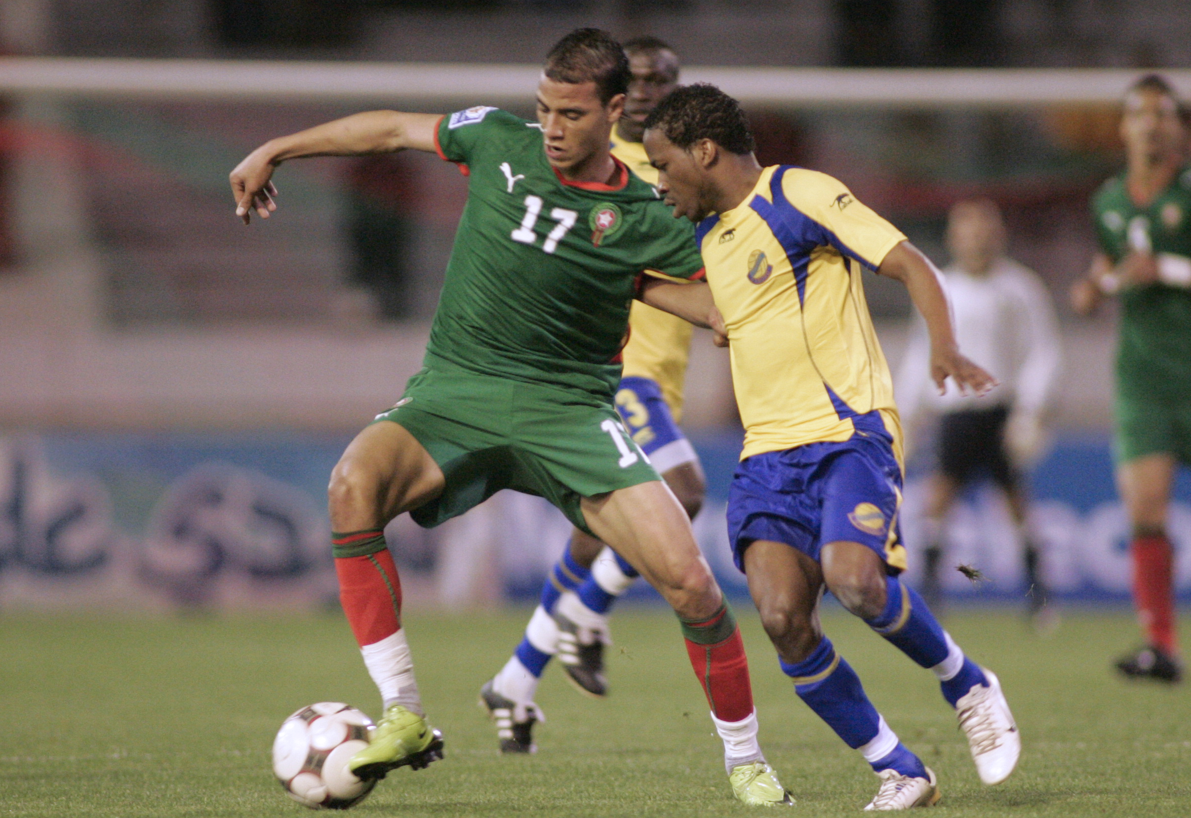 Marouane Chamakh of Morocco (left) and Stephane Nguema of Gabon (right) during an international match of their national teams. Gabon won the match against Morocco with 2-1.